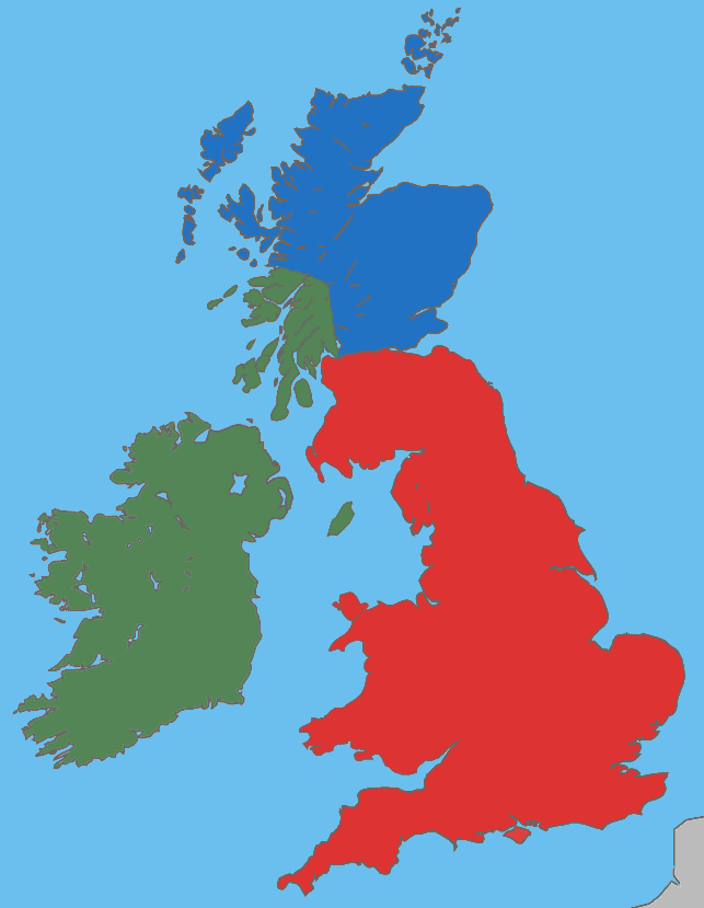 A map showing the approximate areas where the Gaelic (green), Brythonic (red) and Pictish (blue) languages were spoken during the 5th century CE; the period between the Roman withdrawal and the founding of Anglo-Saxon kingdoms.